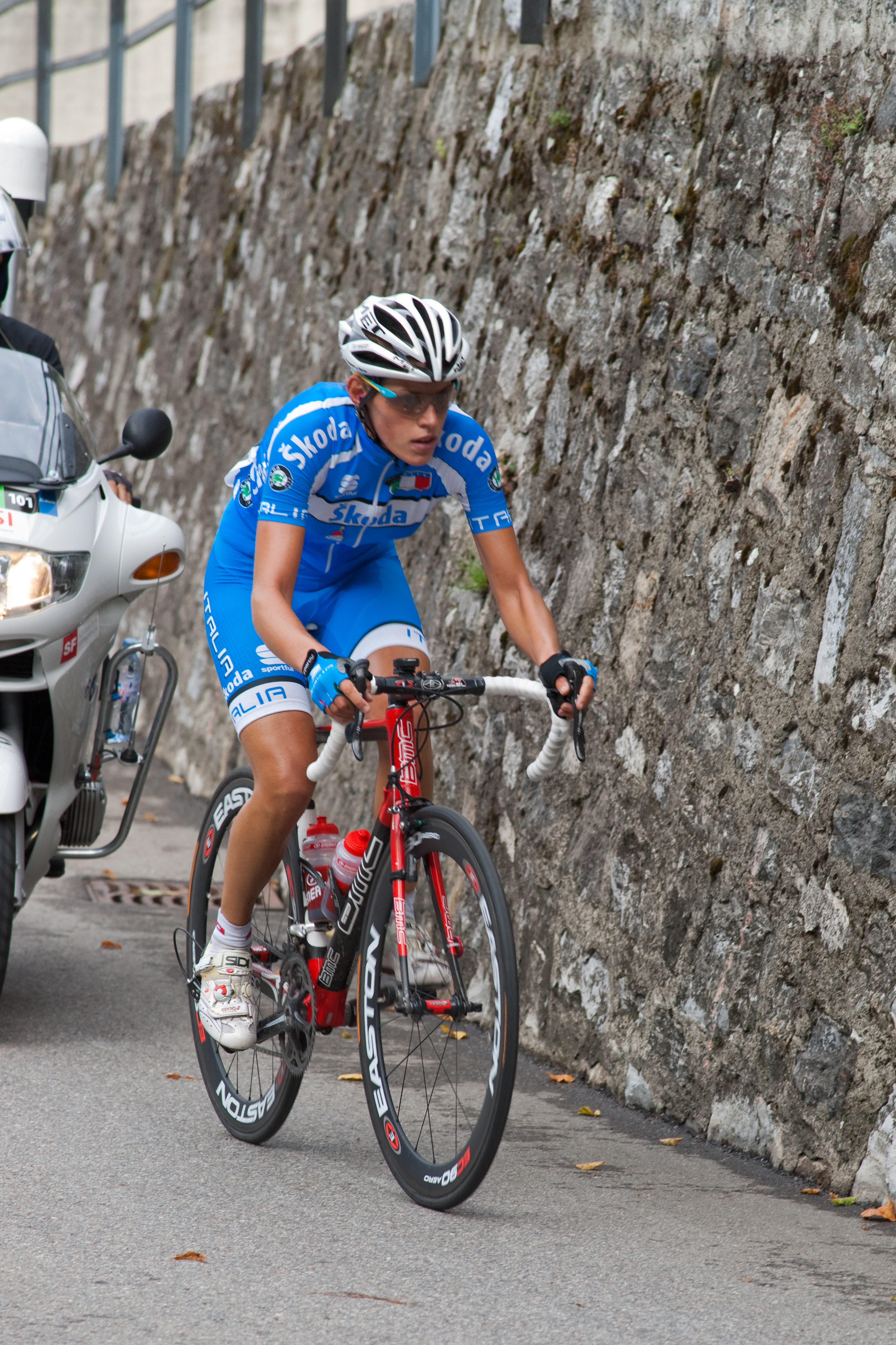 Noemi Cantele during the 2009 Road World Championships in Mendrisio, Switzerland.